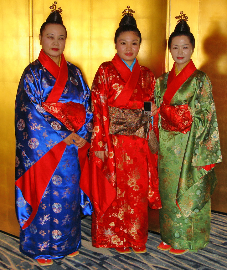 On 2008-01-30,I took this foto at Shinagawa, Tokyo."Uzagaku" (御座楽) or royal-sitting-music was the court music of old Ryukyu Kingdom(Okinawa Prefecture,today), and was played by "gakudouji"(楽童子) or music young boys. In this photo, 3 Okinawan women dress up as "gakudouji"s.